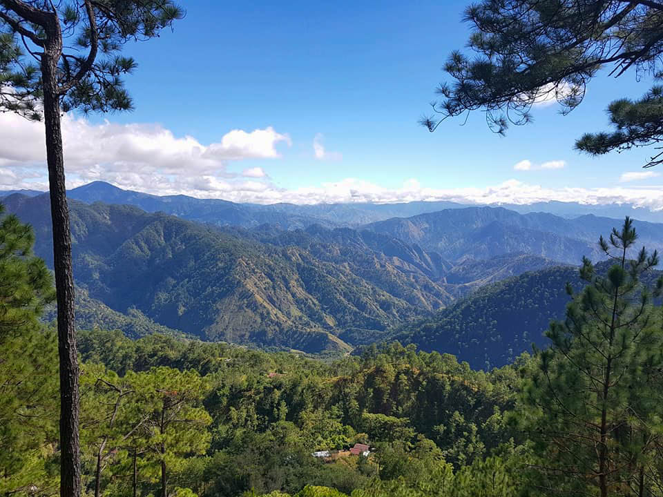 Mt. Ulap is located at Tuba, Benguet, Philippines.